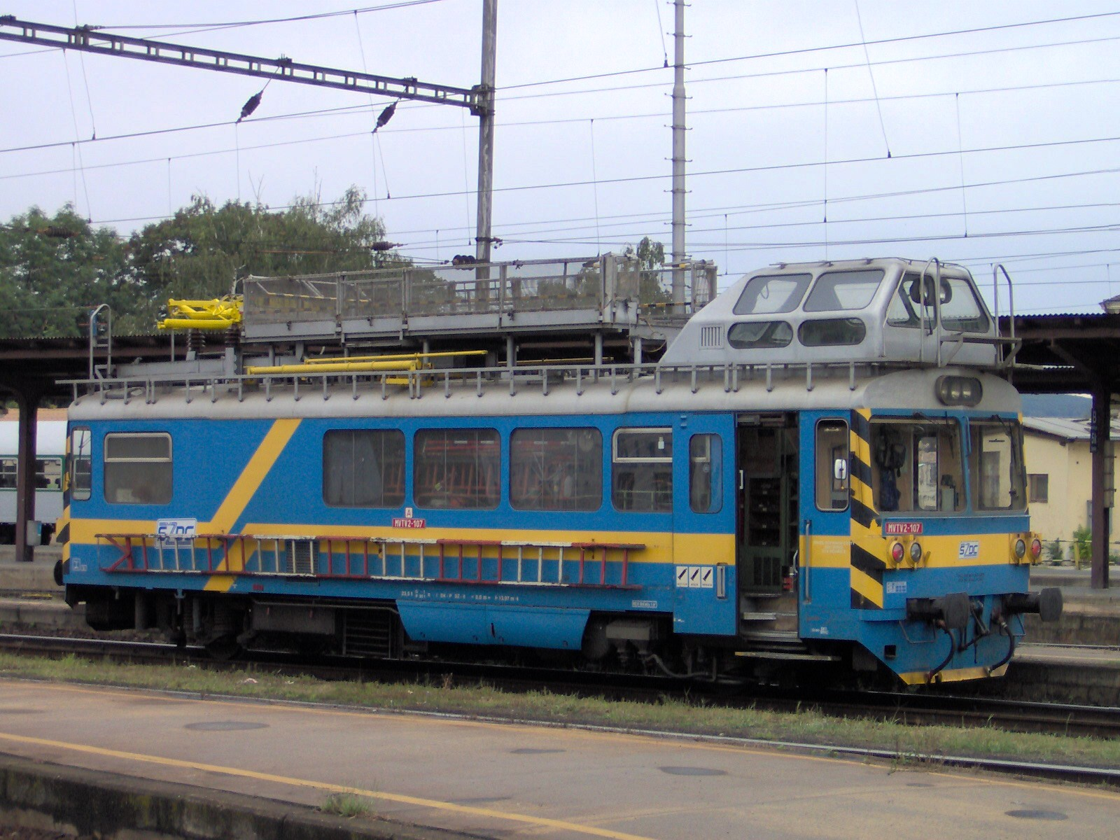 Diesel multiple unit MVTV 2-107, Brno main station, Czech Republic